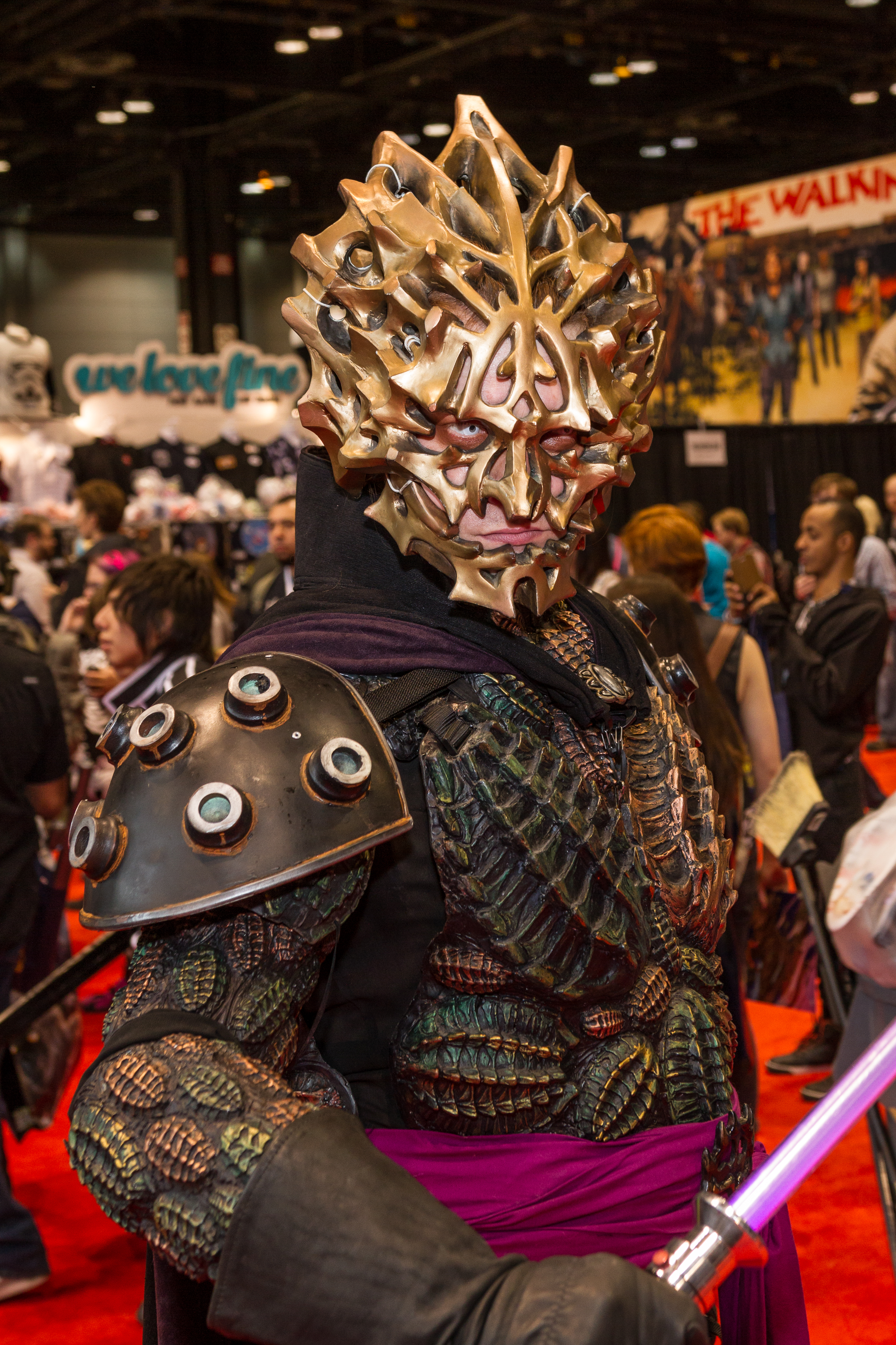 Cosplay at the 2015 Chicago Comic & Entertainment Expo (C2E2).